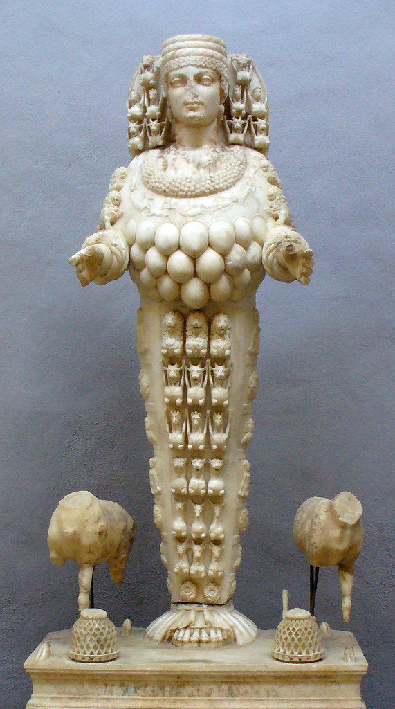 Artemis of Ephesus. 1st century CE Roman copy of the cult statue of the Temple of Ephesus. Statue in the Museum of Efes (Turkey).